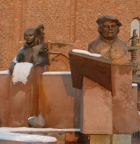 Katharina von Bora and Martin Luther in Ludwigshafen, Germany